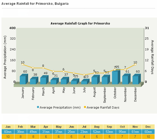 Average Rainfall for Primorsko, Bulgaria